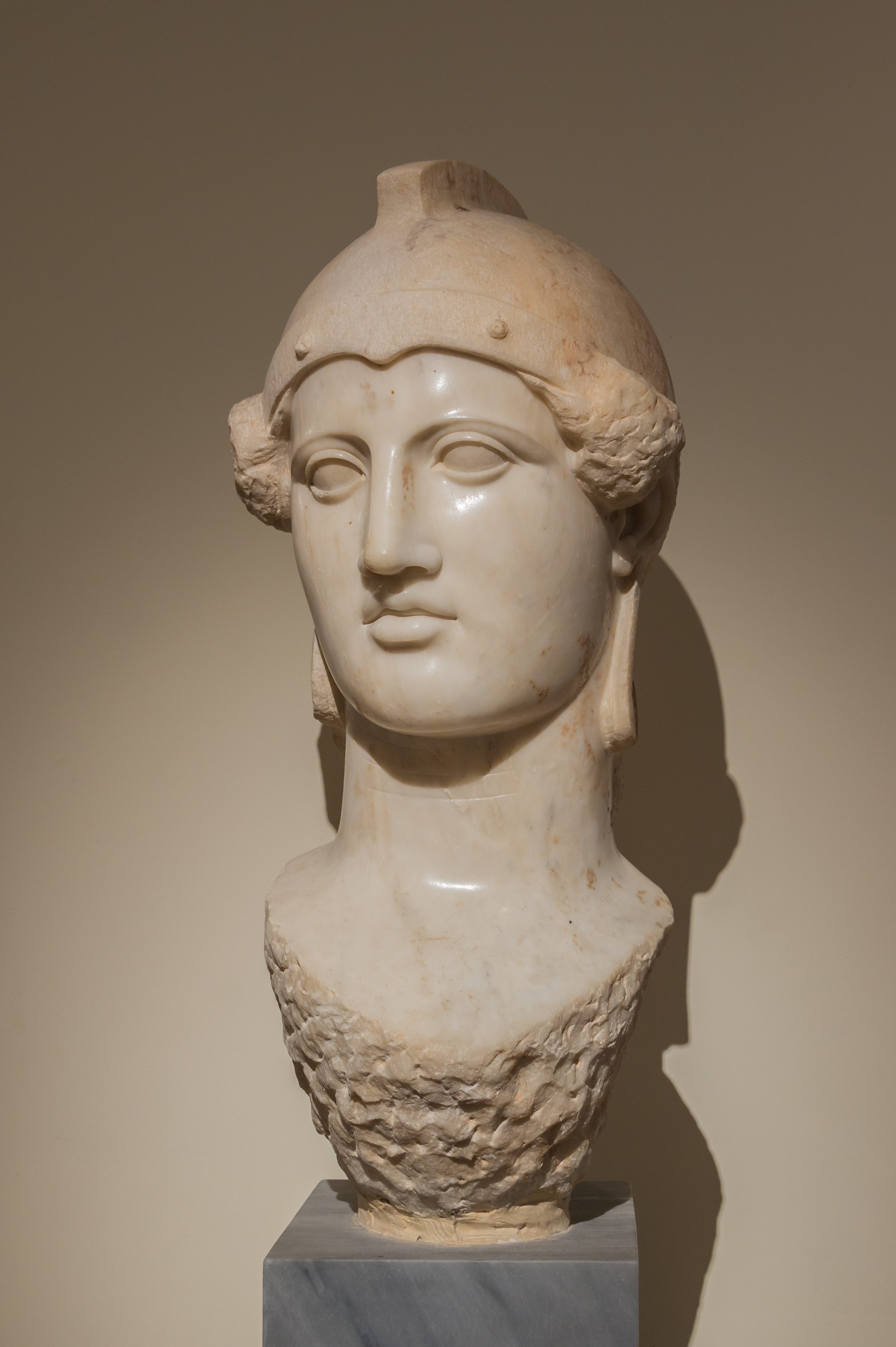 Head of Pnyx Athena, NAMA 3718, Athens, Greece.